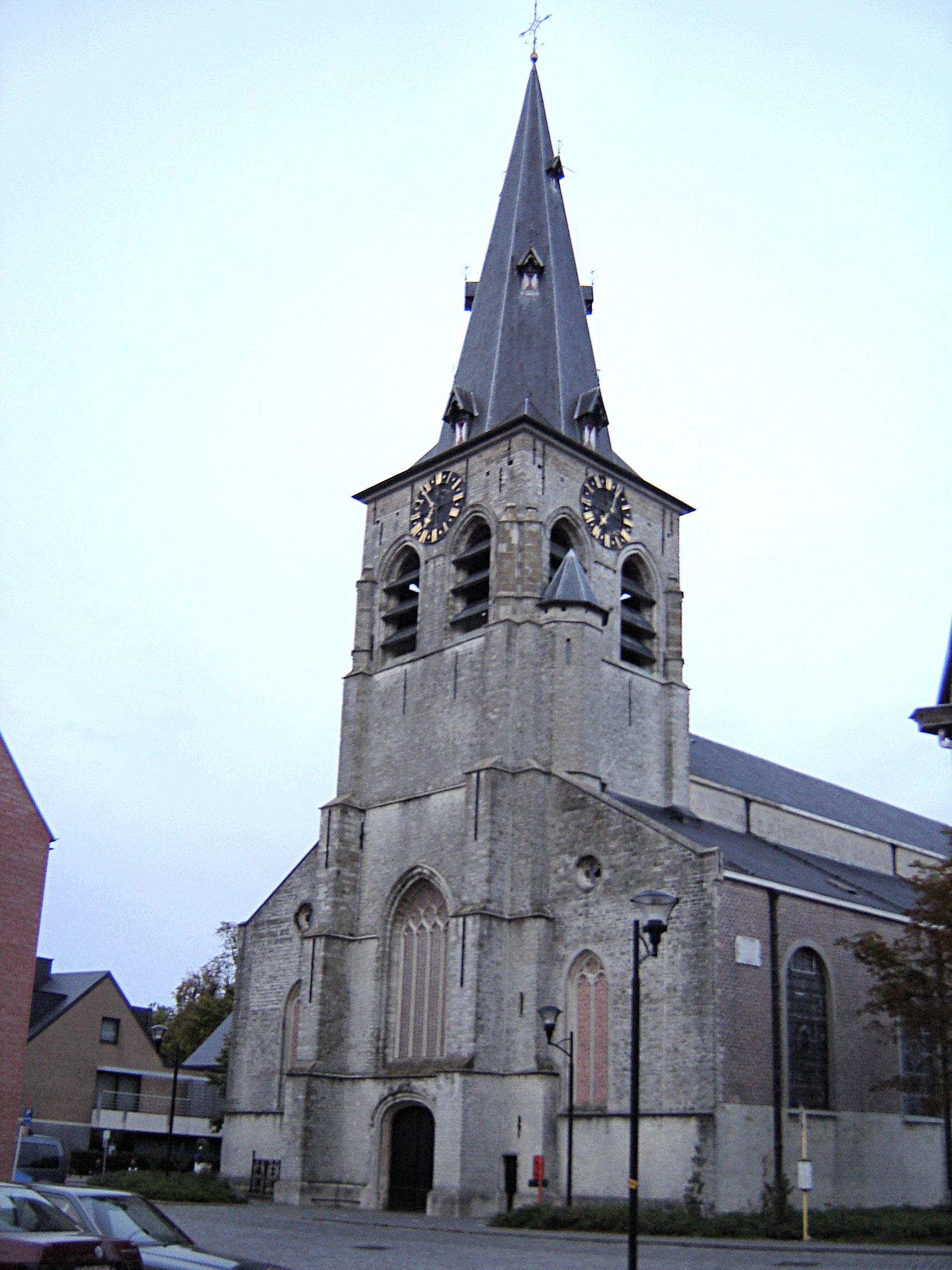 Church of Our Lady and Saints Peter and Paul in Waasmunster. Waasmunster, East Flanders, Belgium